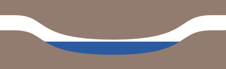 Scetch of a "Halbsyphon".